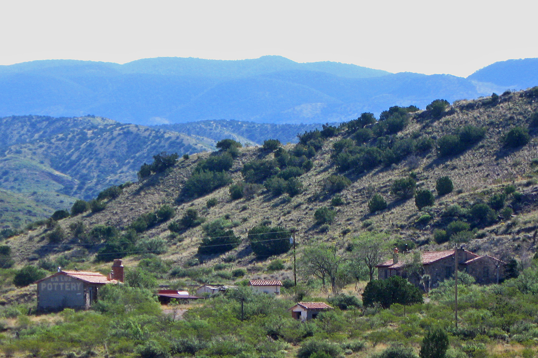 La Luz Pottery Factory, located off of Fresnal Canyon Road near its intersection with Laborcita Canyon Road, about 2 miles east of La Luz, New Mexico. Listed on the National Register of Historic Places, NRIS Item No. 79001544. Now a private residence.